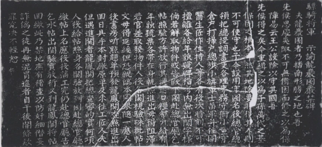 Piaoqijiangjun Shiyu Longyantun Yanjinbei